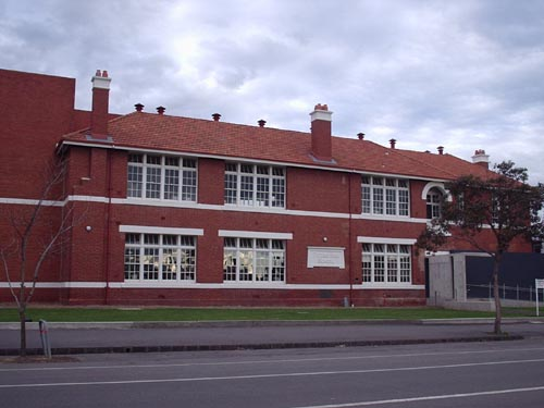 Fitzroy High School, Melbourne. Photo by Ambivalenthysteria.